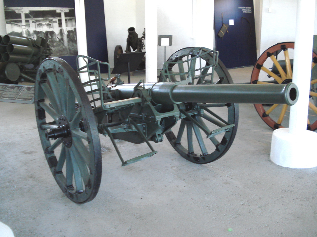 Russian Model 1900 76,2 mm field gun. This particular piece was manufactured in St. Petersburg in 1903. Displayed in Hämeenlinna Artillery Museum. Photo taken on June 18, 2006. Source: Photo by me, User:Balcer.